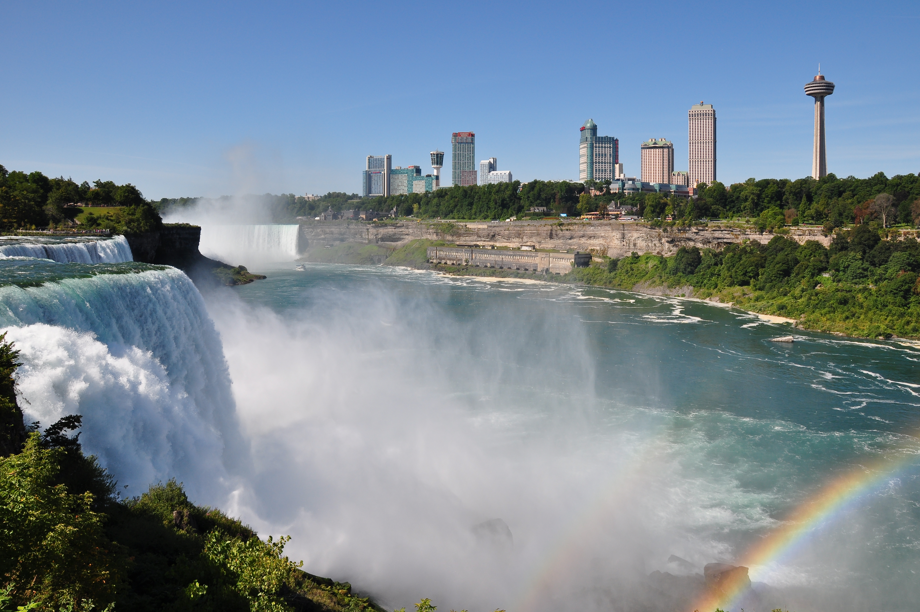 Niagara Falls and Niagara River, with American Falls to the left and Horseshoe Falls in the distance. The Canadian city of Niagara Falls is seen across the river.